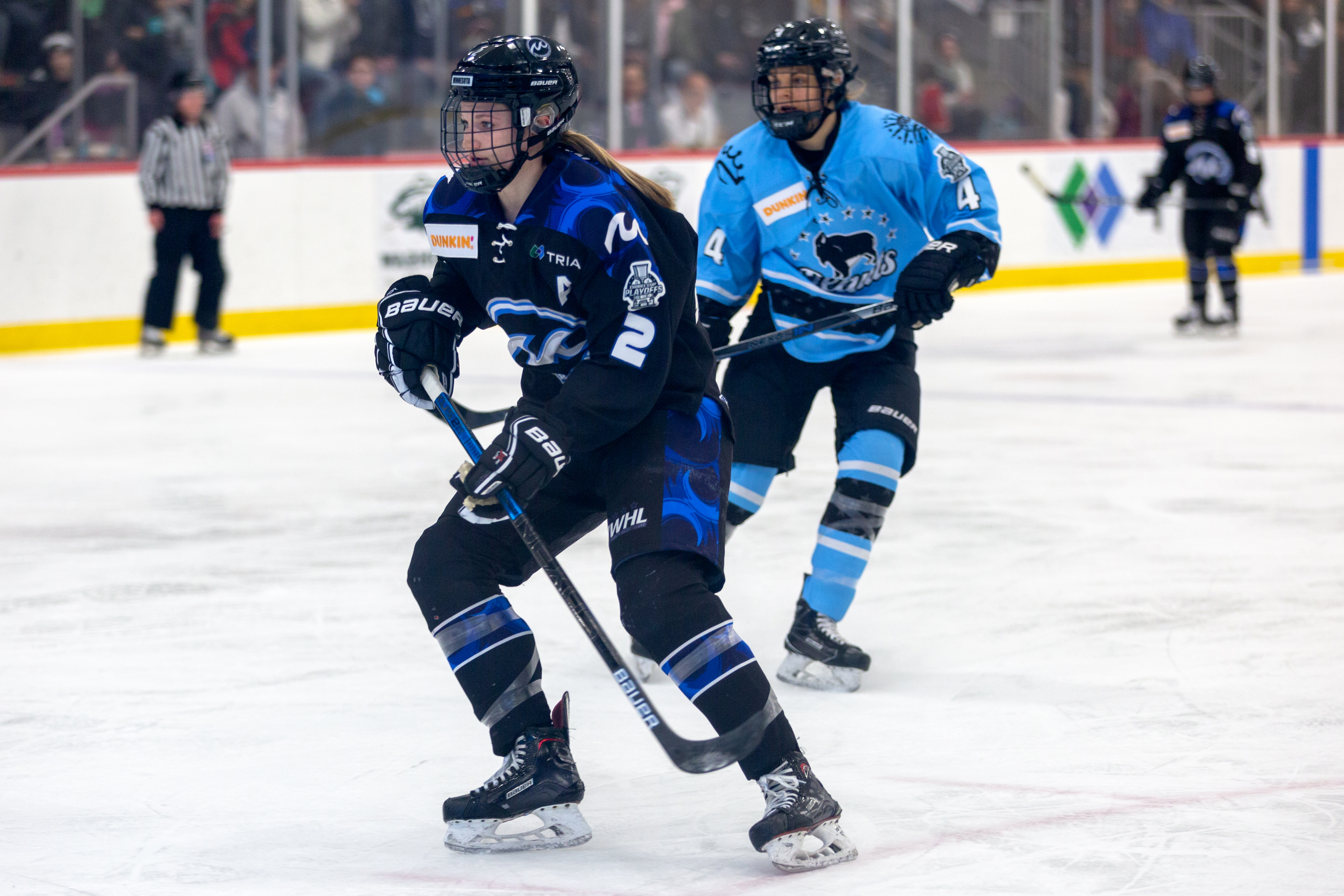 In their final game of the season, the Minnesota Whitecaps won in overtime to beat the Buffalo Beauts 2-1 and to capture the Isobel Cup for the 2018-19 inaugural season of the National Women’s Hockey League.